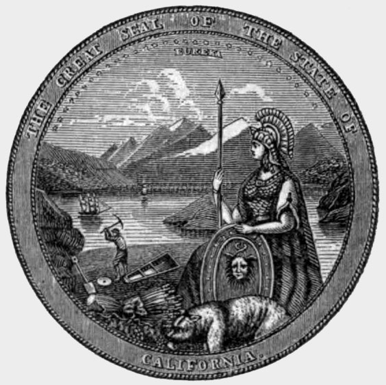 Seal of California, a state of the United States.